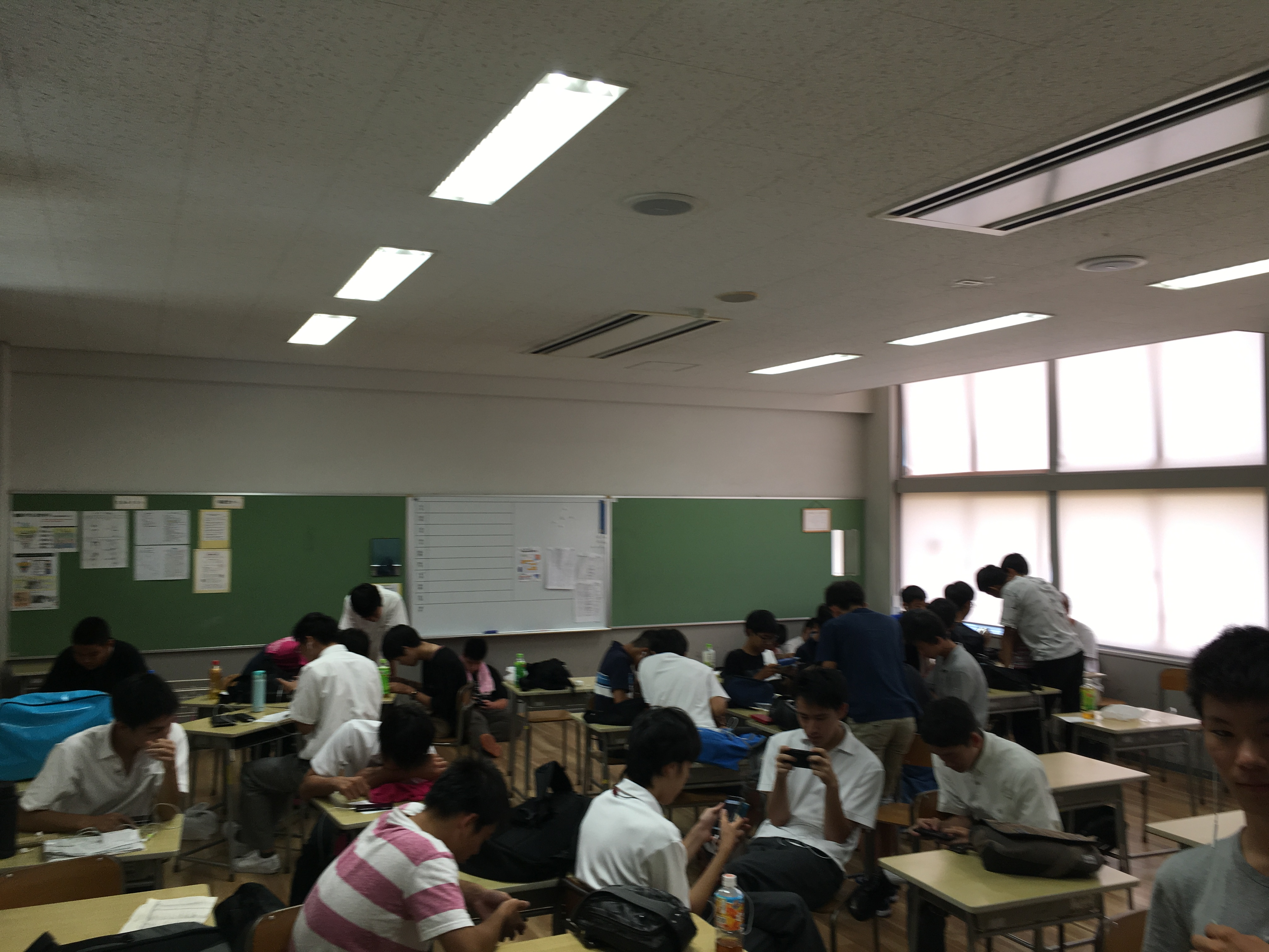 One of the sessions of Aichi Summer Seminor 2018; they are playing 荒野行動(KNIVES OUT), here.